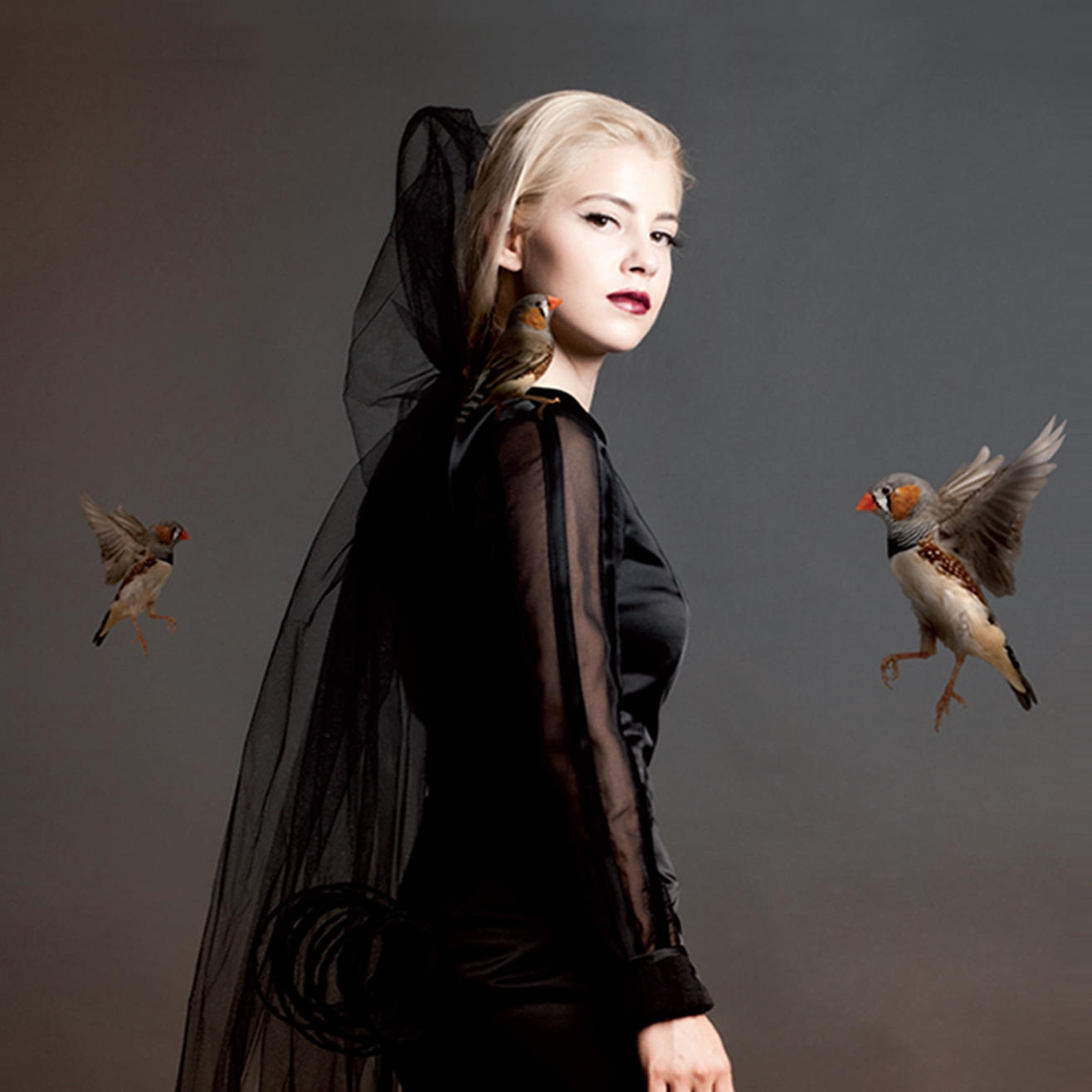 Photo of Maya Lavelle